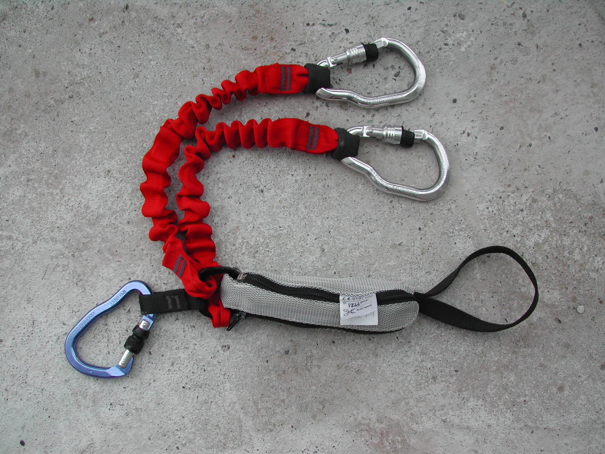 Via ferrata lanyard of type Scorpio by Petzl with progressive-tear shock absorber.